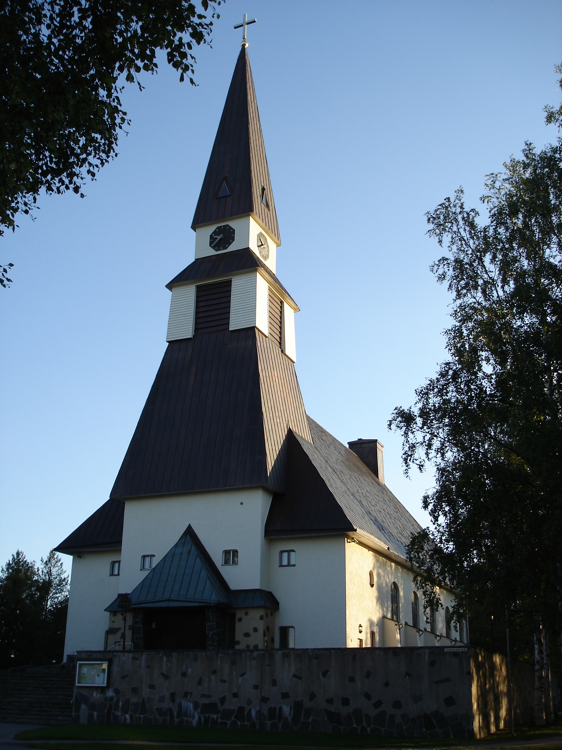 Rovaniemi Church